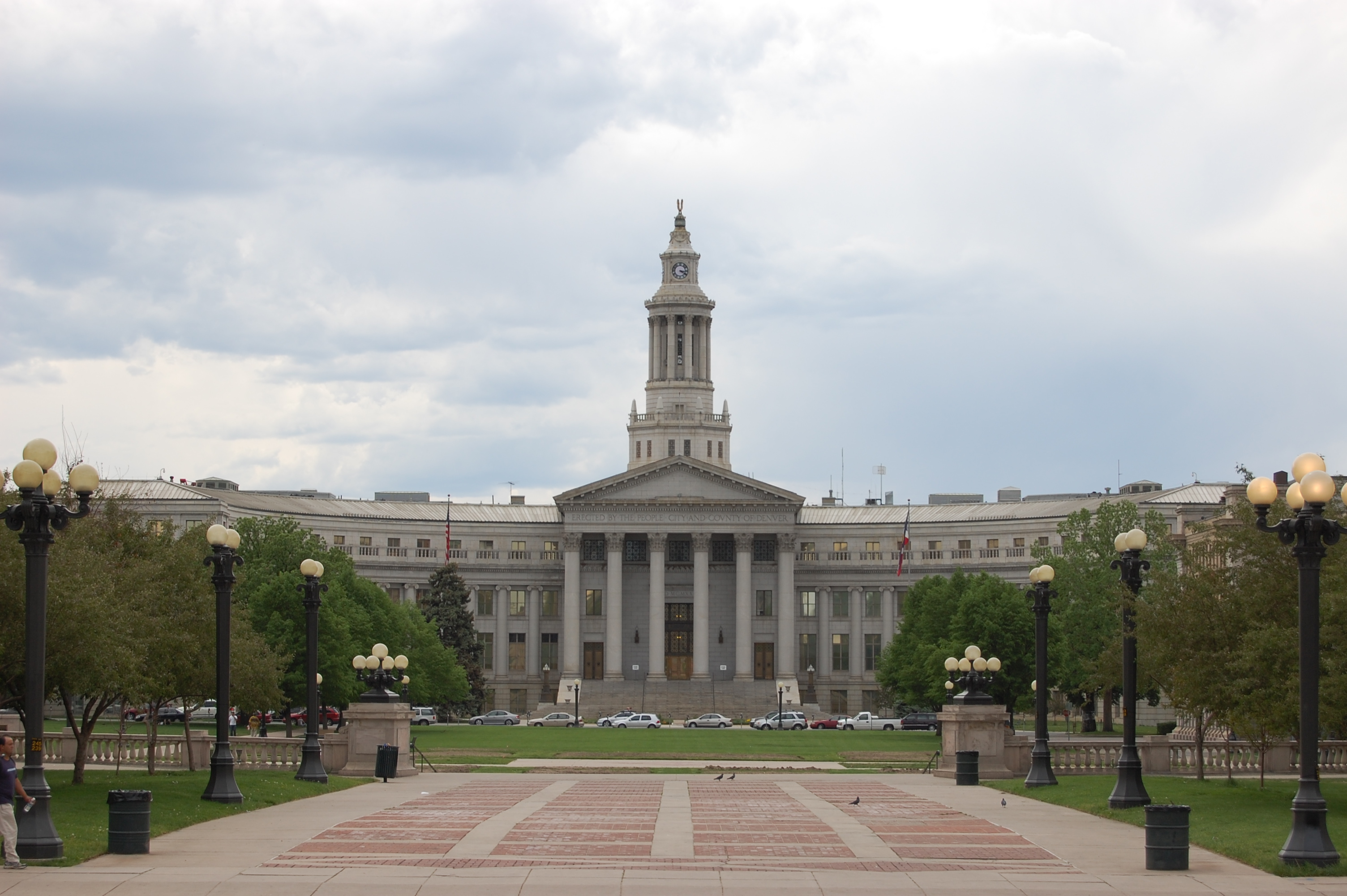 Denver City Hall